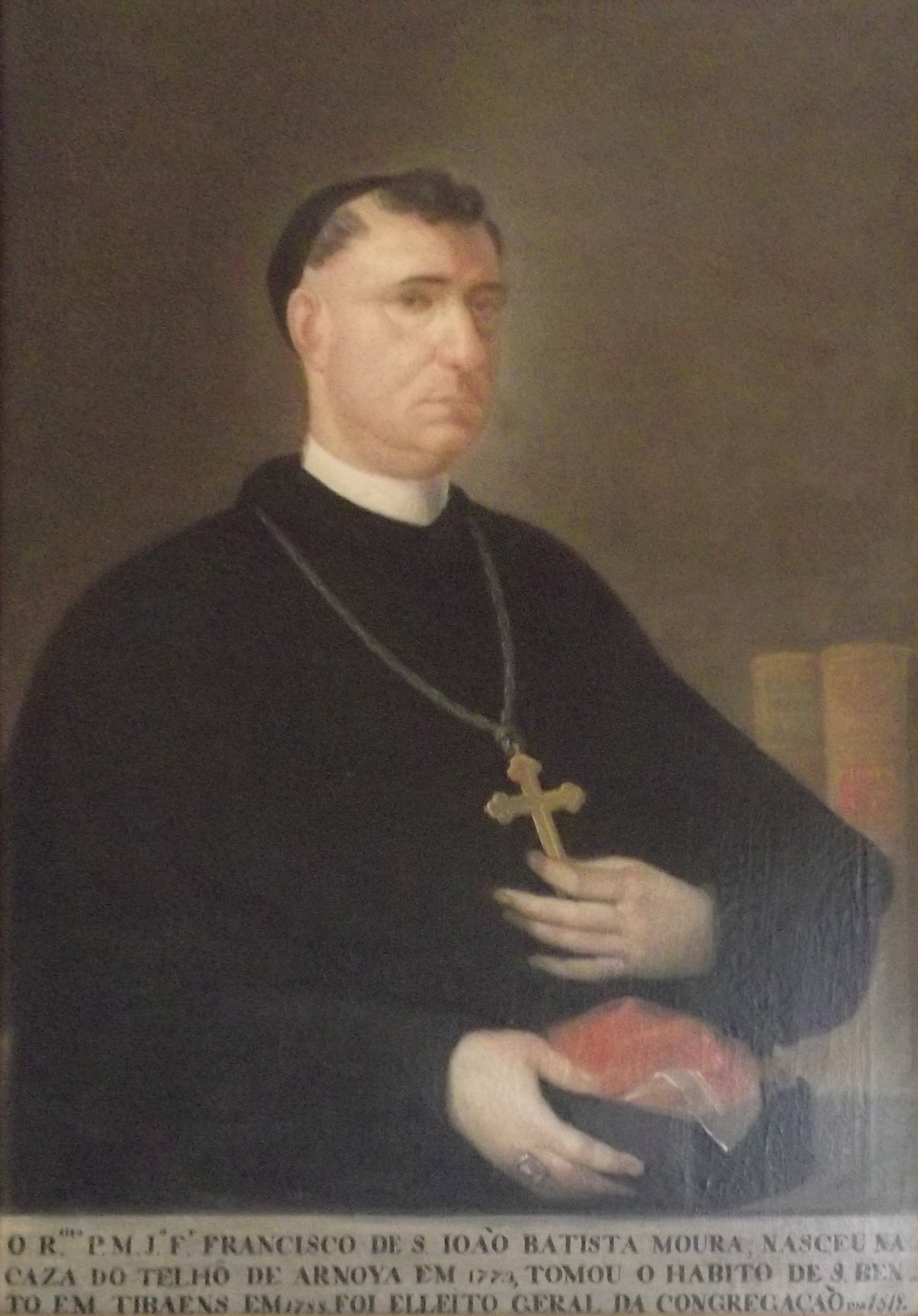 Portrait of Francisco de São João Baptista Moura, Abbot General of the Benedictine Order, in the Monastery of Tibães, Braga, Portugal